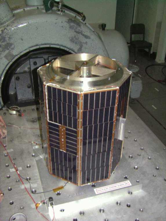 Simplesat on the vibration test